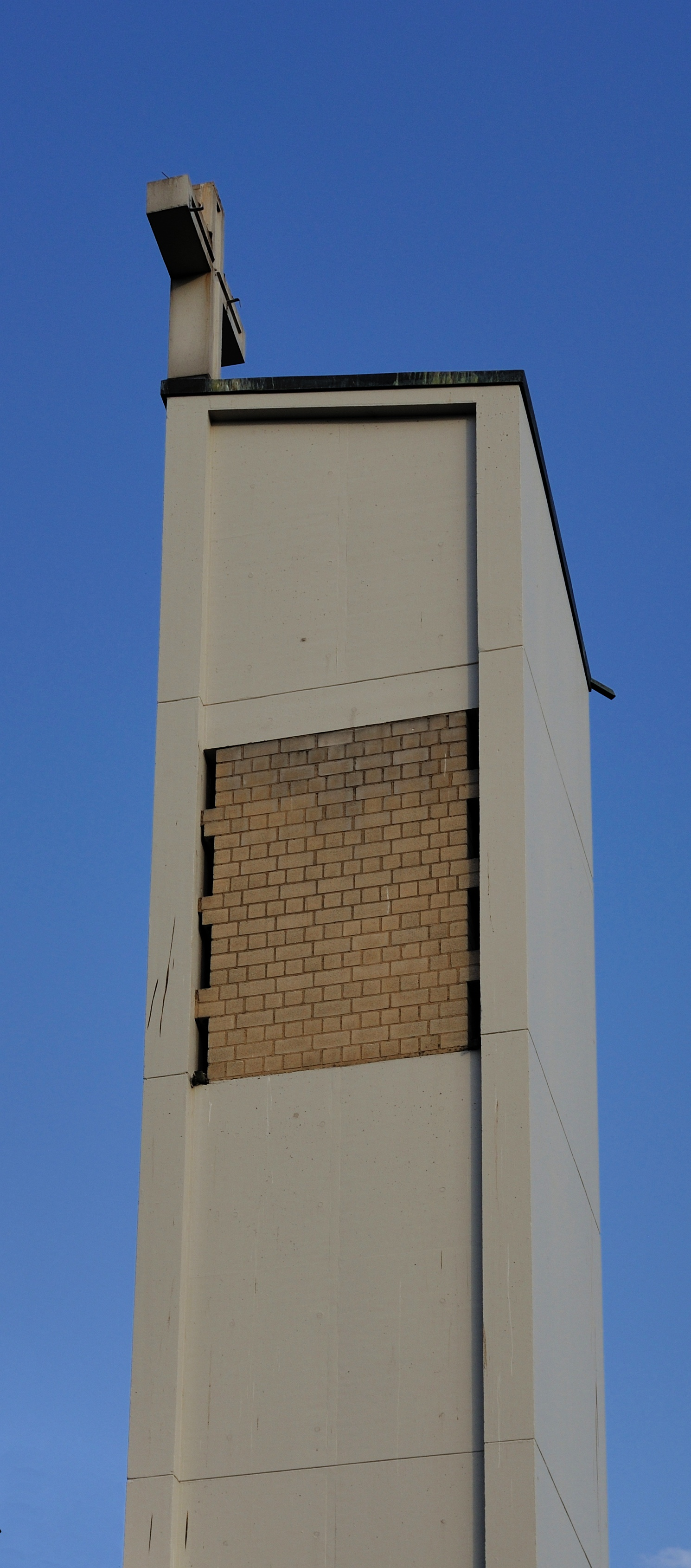 Maulburg: Catholic Church